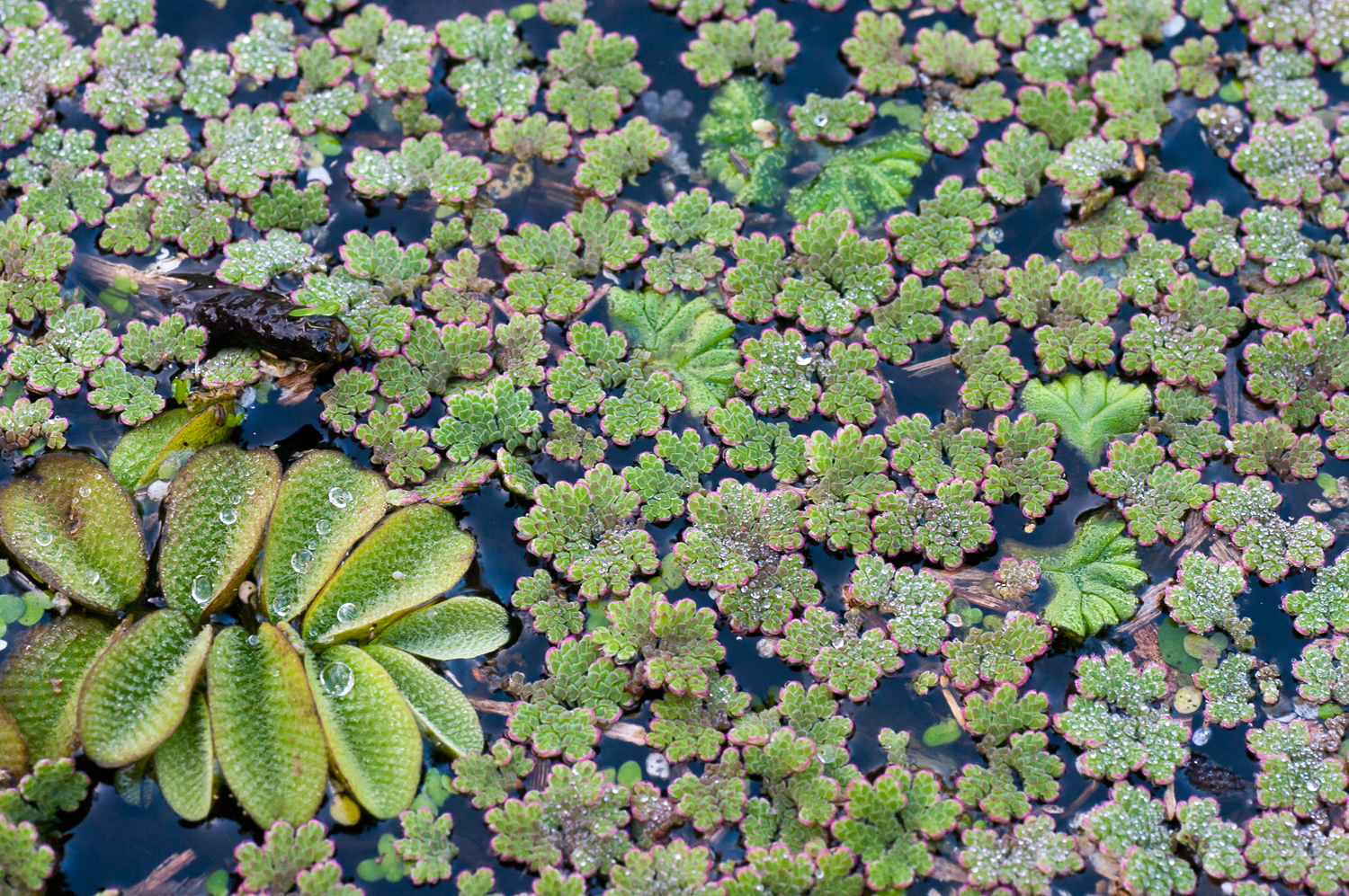 Floating waterplants on the surface of a pond at the banks of the river Elbe. Associated species: Azolla filiculoides, Salvinia natans, Ricciocarpos natans, and a few Lemna minor.